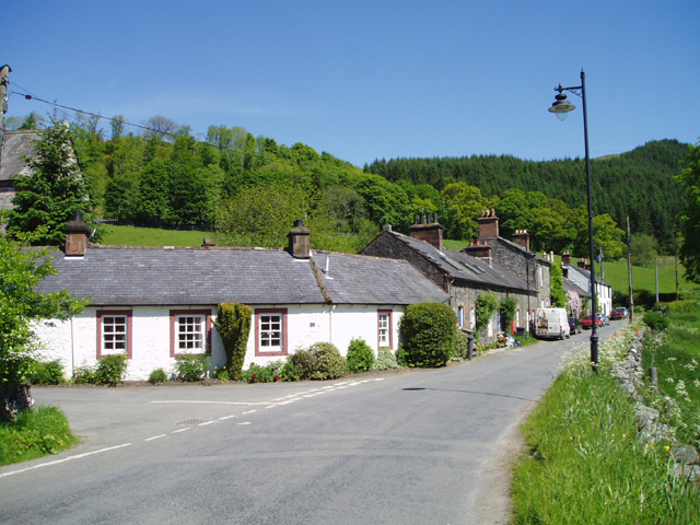 Tynron. Taken a few yards outside grid square looking north into grid square at the picturesque cottages which were restored as part of The National Trust for Scotland's Little Houses Scheme.